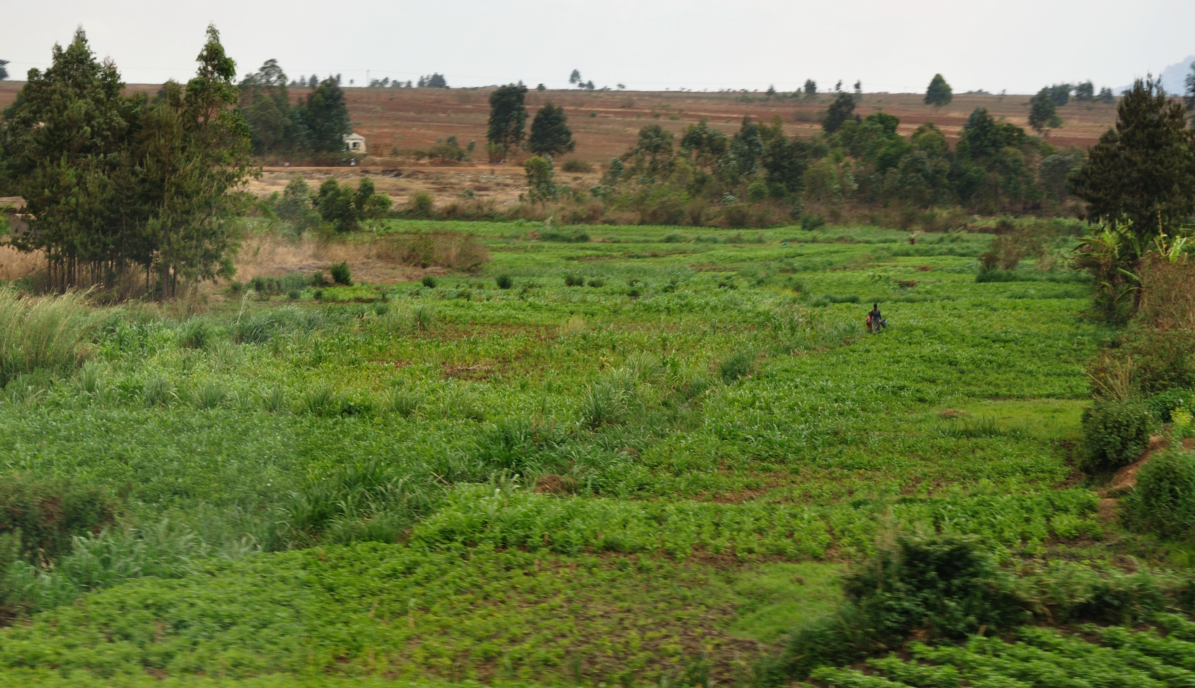 Malawi, road side impressions along the M1 between Blantyre and Lilongwe